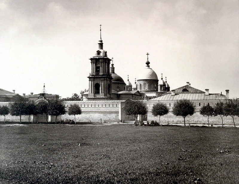 Pokrovsky Convent, Moscow.